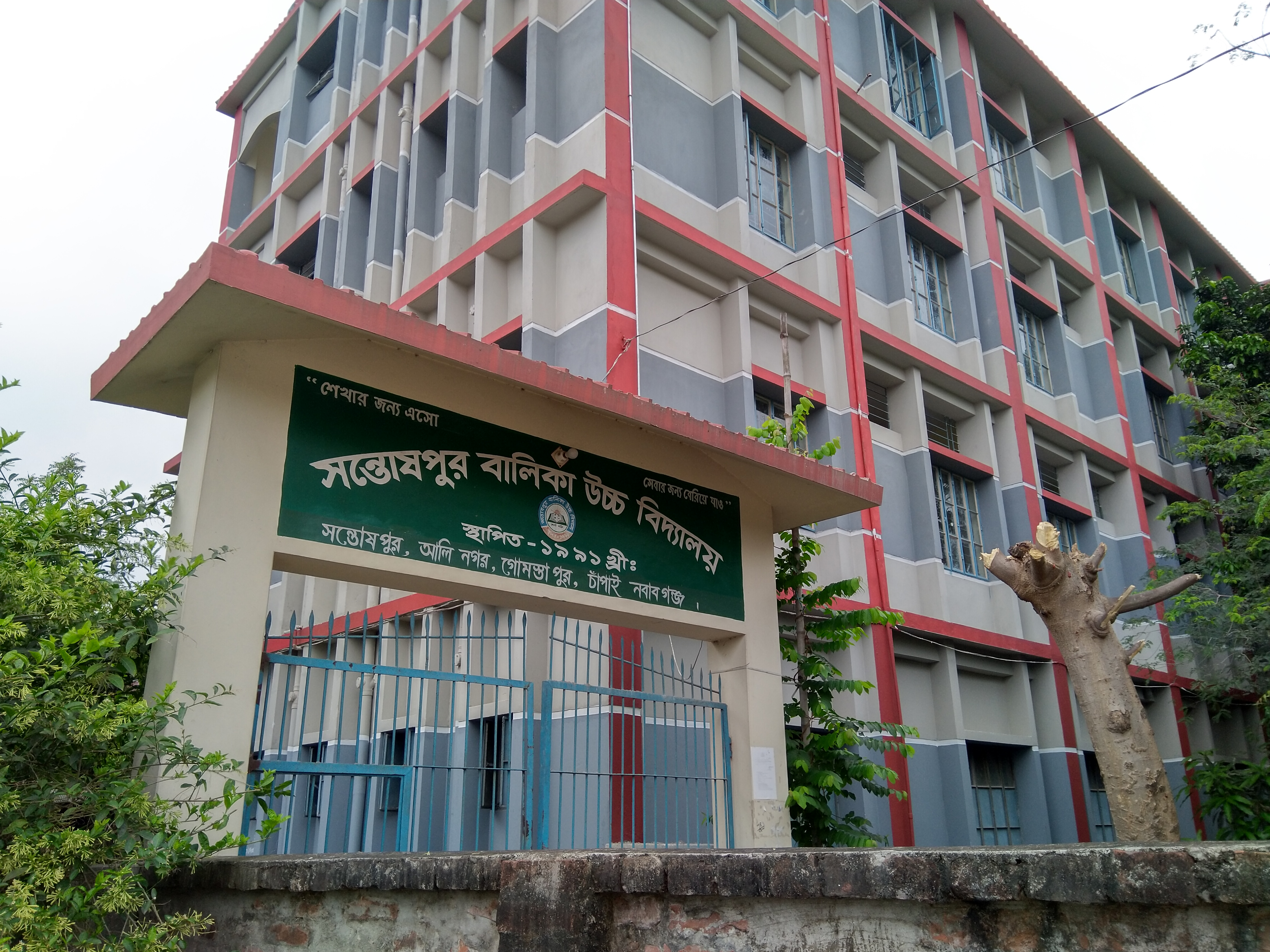 School in Bangabari